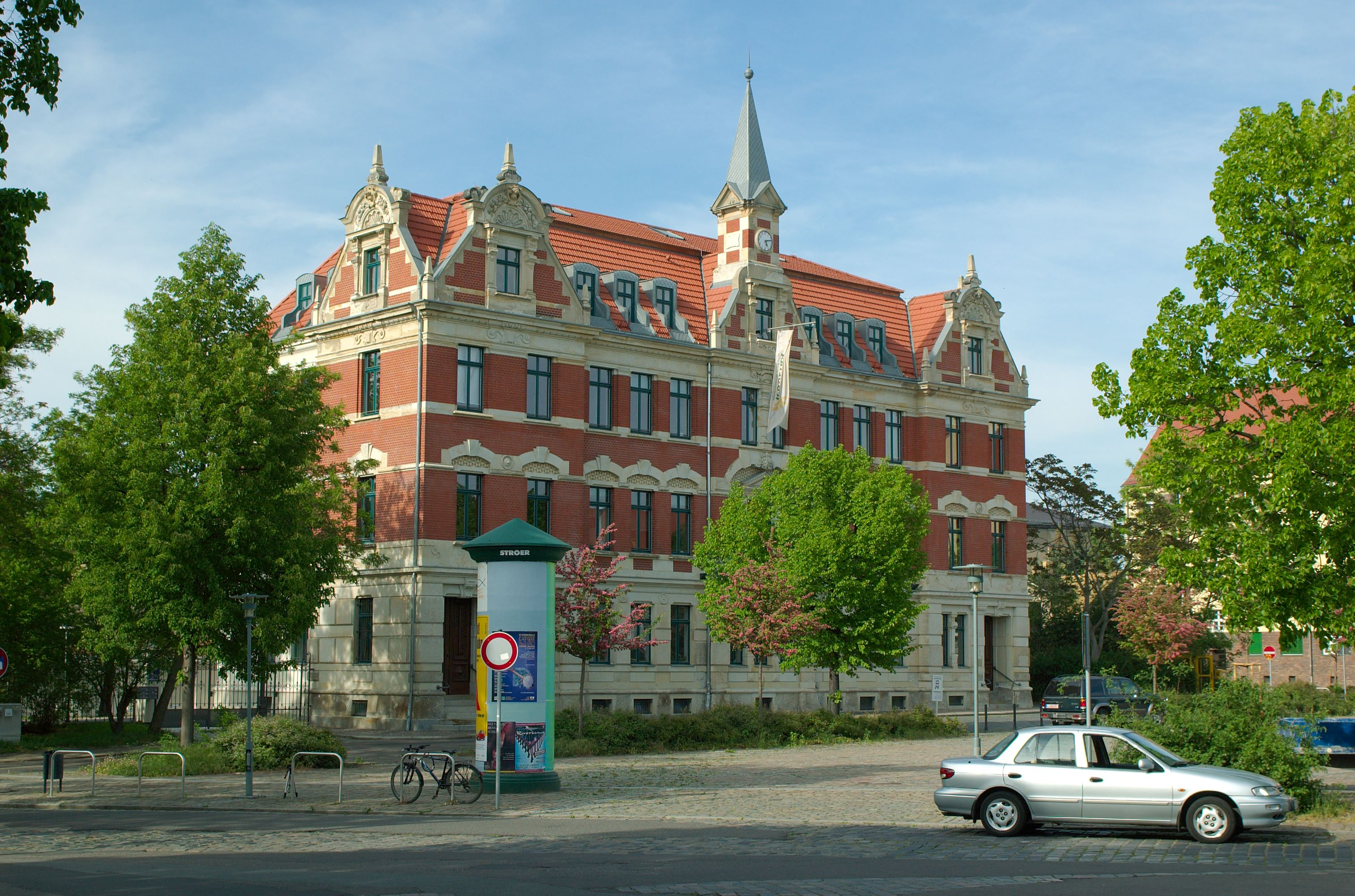 town hall of Eutritzsch